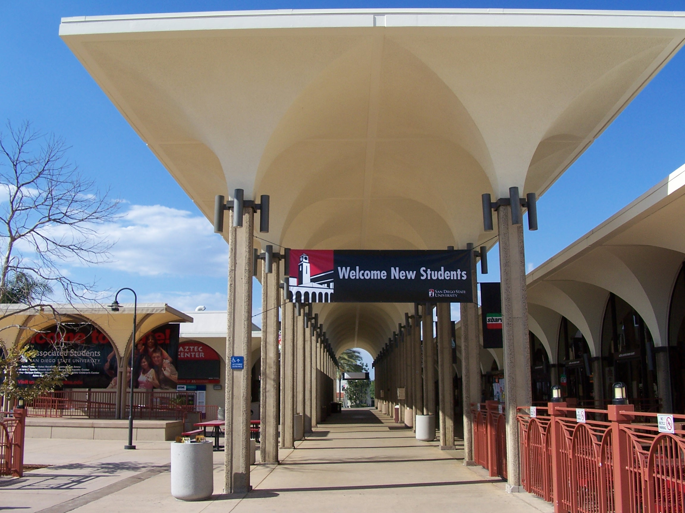 The entrance to Aztec Center at San Diego State University. Continuing through the center will lead to the bookstore, library, student services, and the majority of campus classrooms. Leading to the entrance of Aztec Center is the pedestrian bridge and trolley station. Picture taken on September 4, en:2006 by User:Nehrams2020